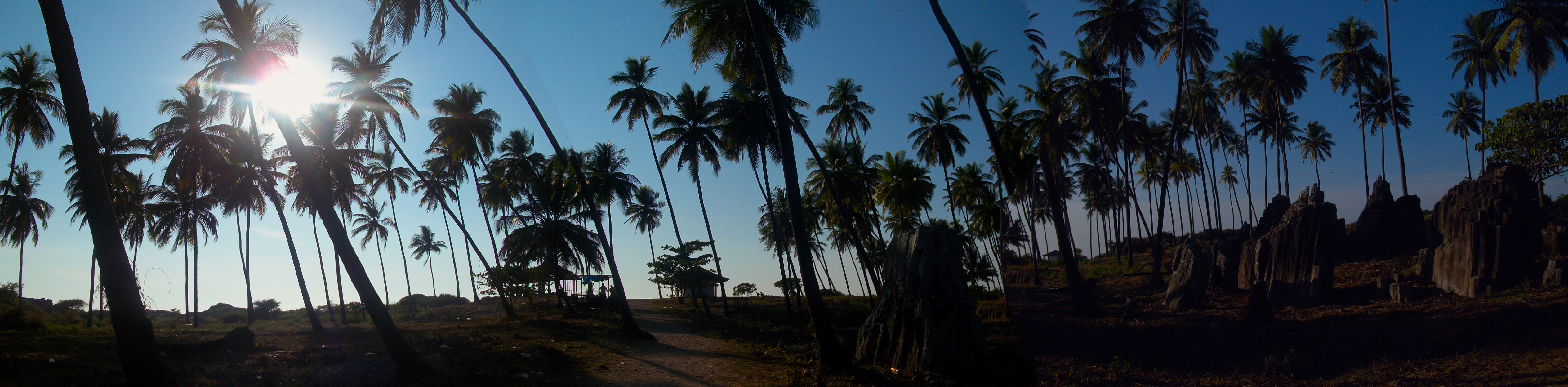 St. Mary's Islands, Malpe beach, Karnataka